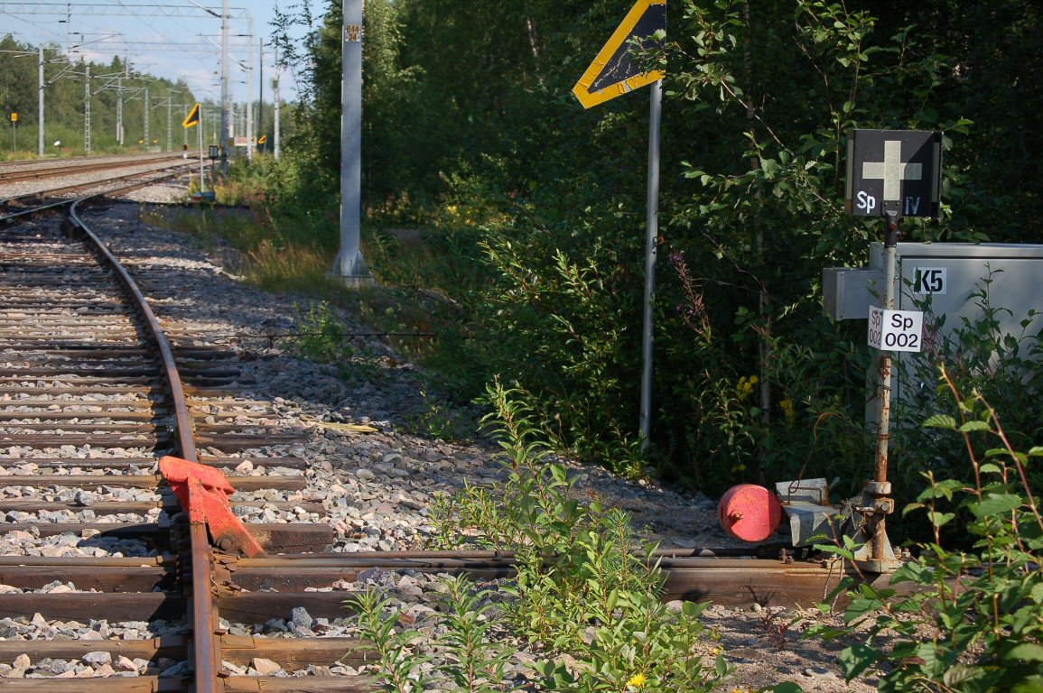 A Finnish derail device of standard type in derailing position, with the "derailing shoe" turned and lockedon top of the rail. The image also shows the hand-throw to operate the derail as well as the derail target (plate with + sign).